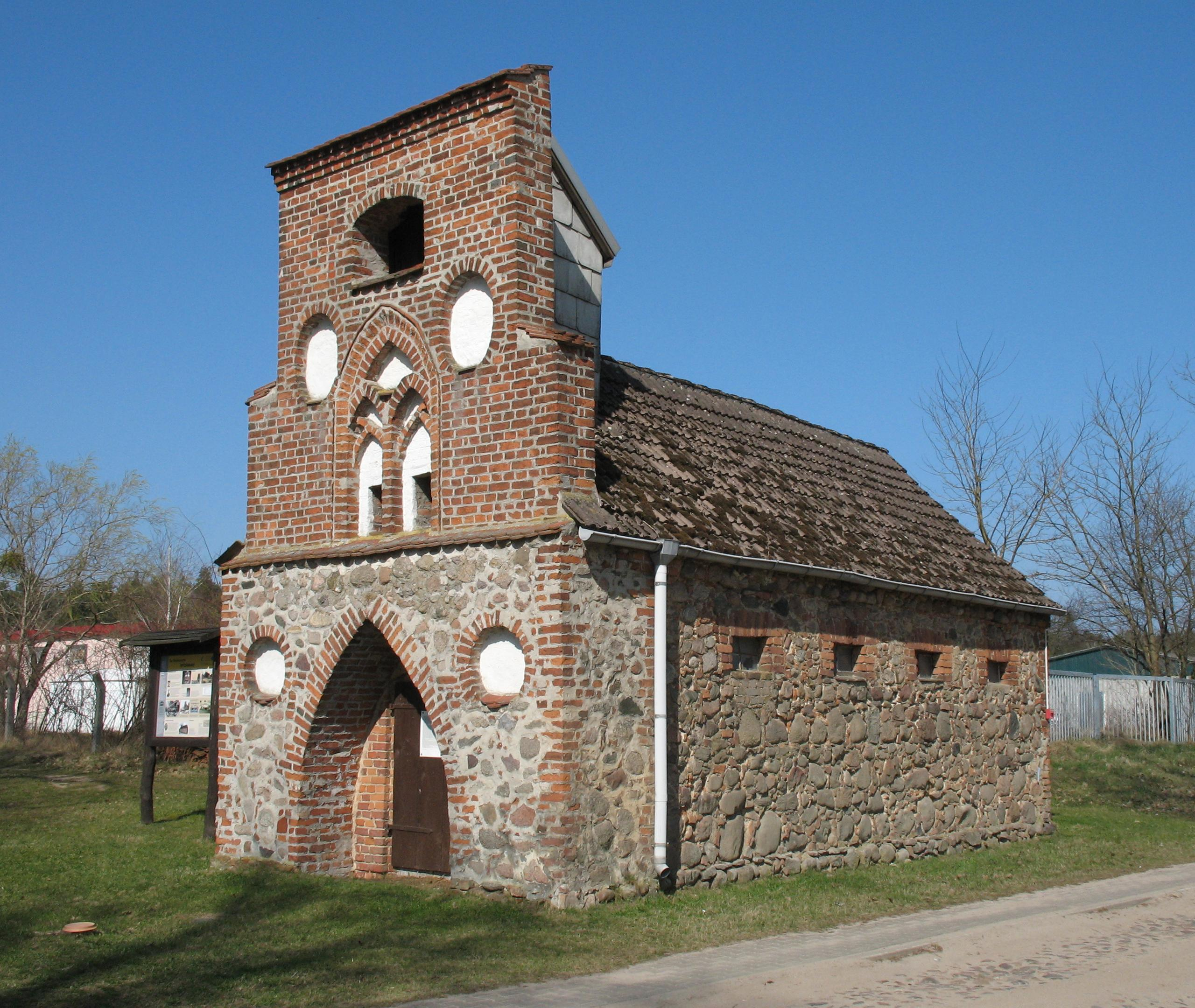 Fire engine house in Rheinsberg-Heinrichsdorf in Brandenburg, Germany